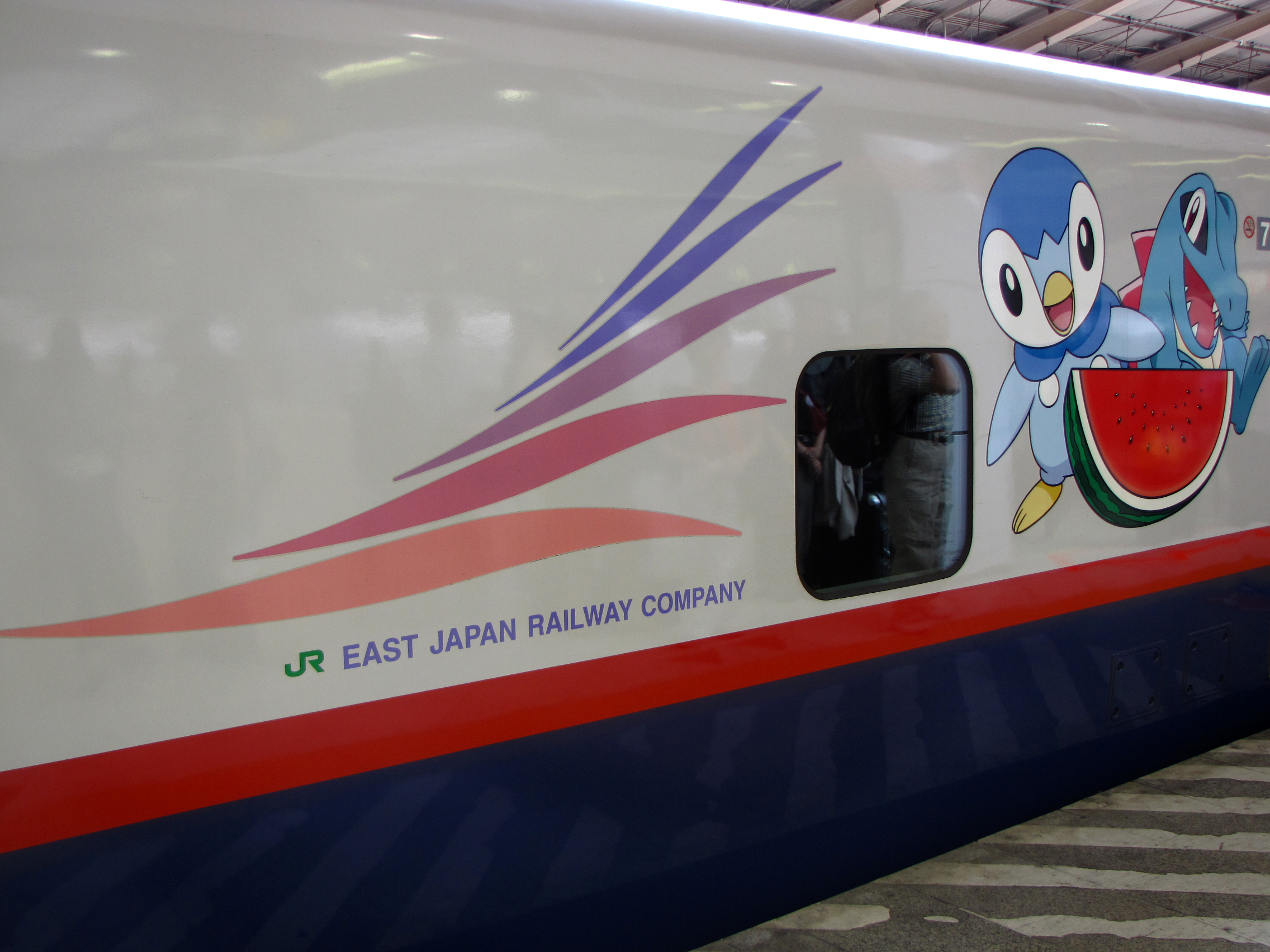 Body logo of Shinkansen E2 Series "Super Express Asama"